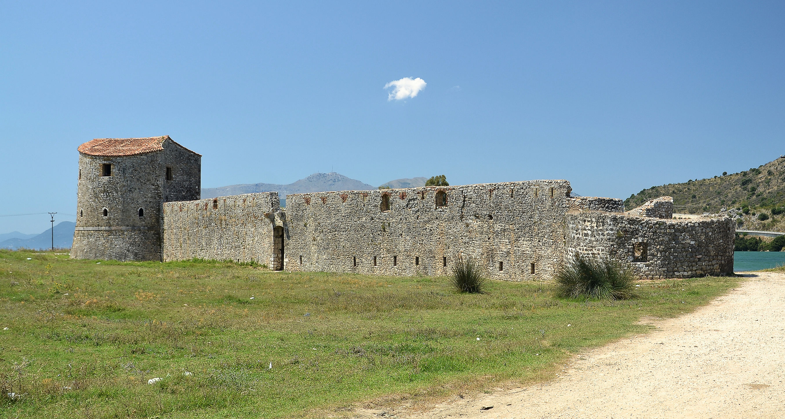 Butrint, Albania - Venetian Triangular Fortress